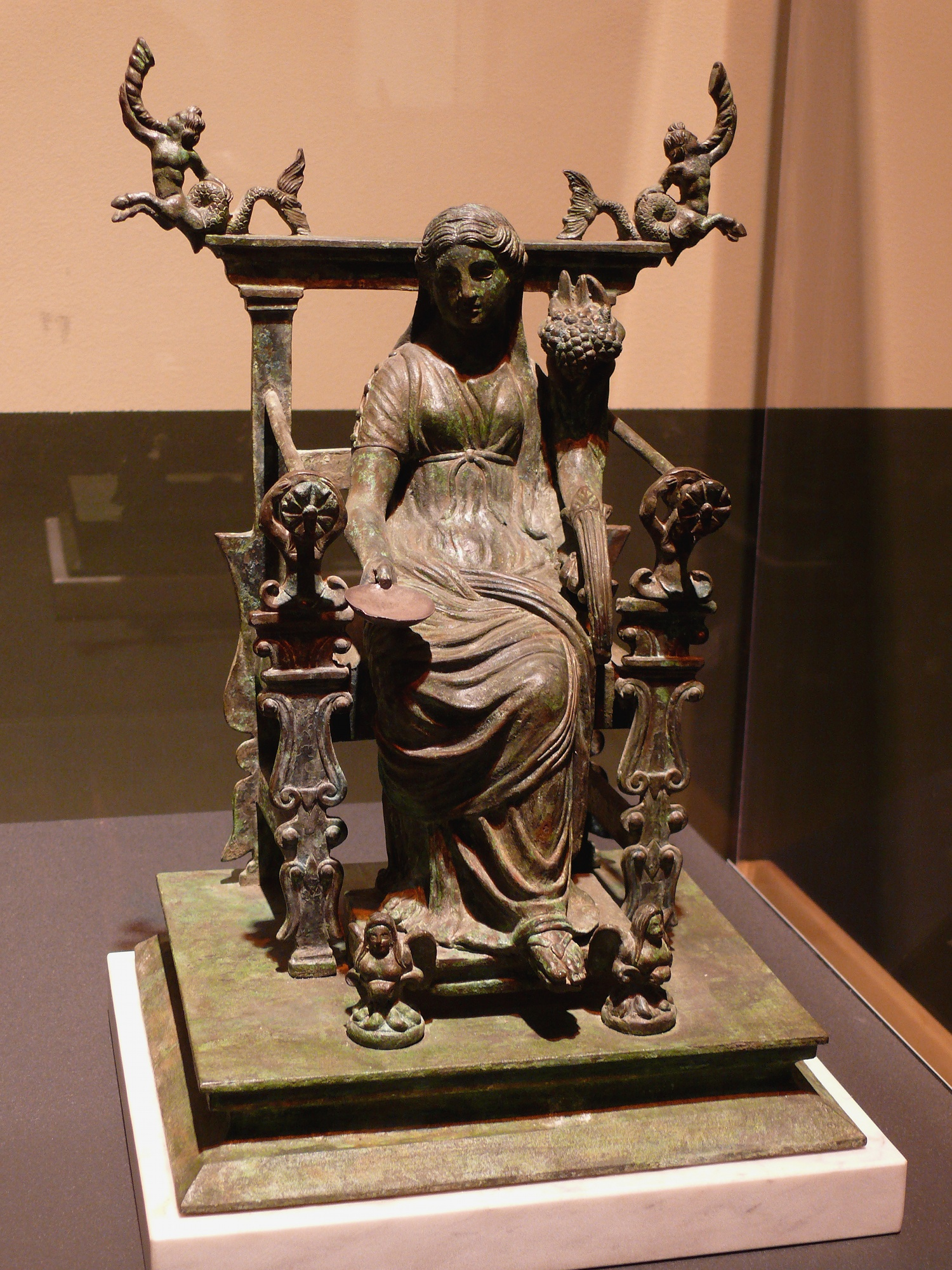 This bronze statue of Fortuna, the Roman goddess of fortune and luck, is believed to have been used for worship in a private home in Pompeii. The statue was on display with the A Day In Pompeii exhibit at the Discovery Place science museum.Photo taken with a Panasonic Lumix DMC-FZ50 in Charlotte, NC, USA.Cropping and post-processing performed with The GIMP.